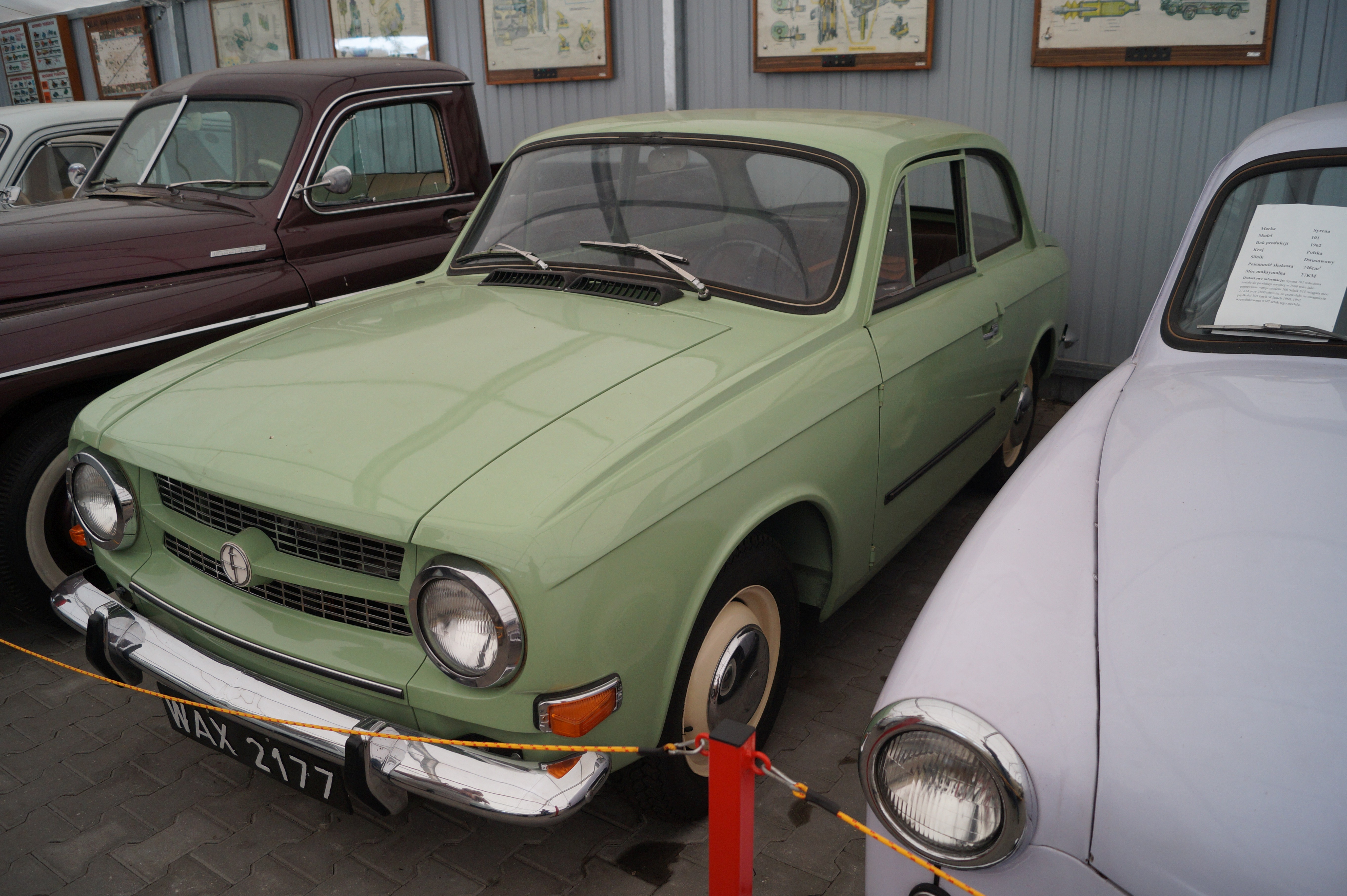 The making of this document was supported by Wikimedia Polska Association, within Wikigrant no. WG 2016-18. English | polski | +/− FSO Syrena Laminat w Muzeum w Nieborowie